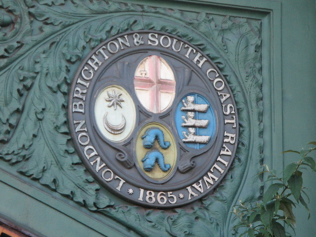 Plaque on the (western) railway bridge over Battersea Park Road, SW8